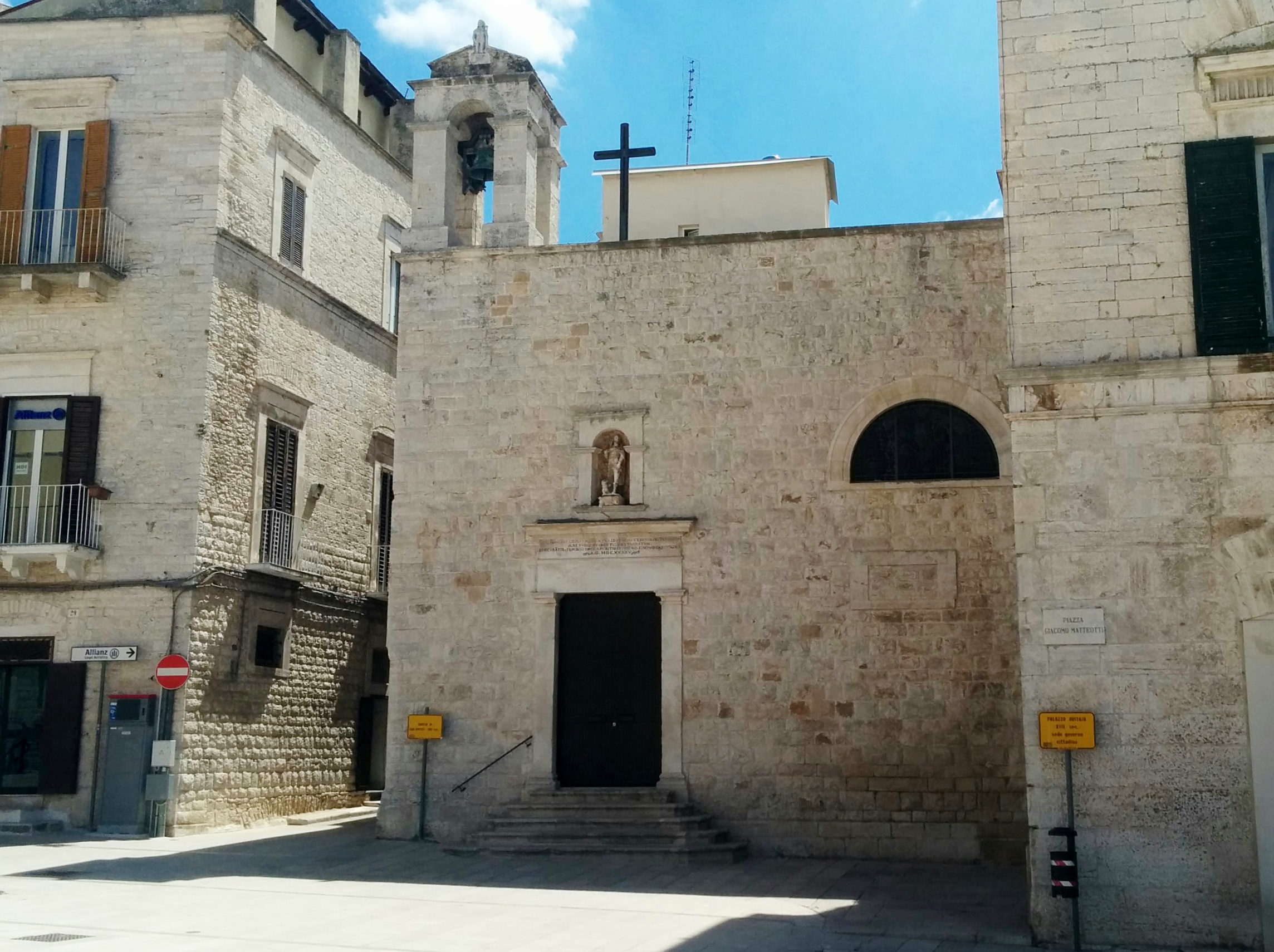 San Rocco's Church in Matteotti square